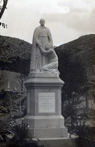 Estatua del padre Carlos Ferris (Carlos Ferris Vila) en Fontilles